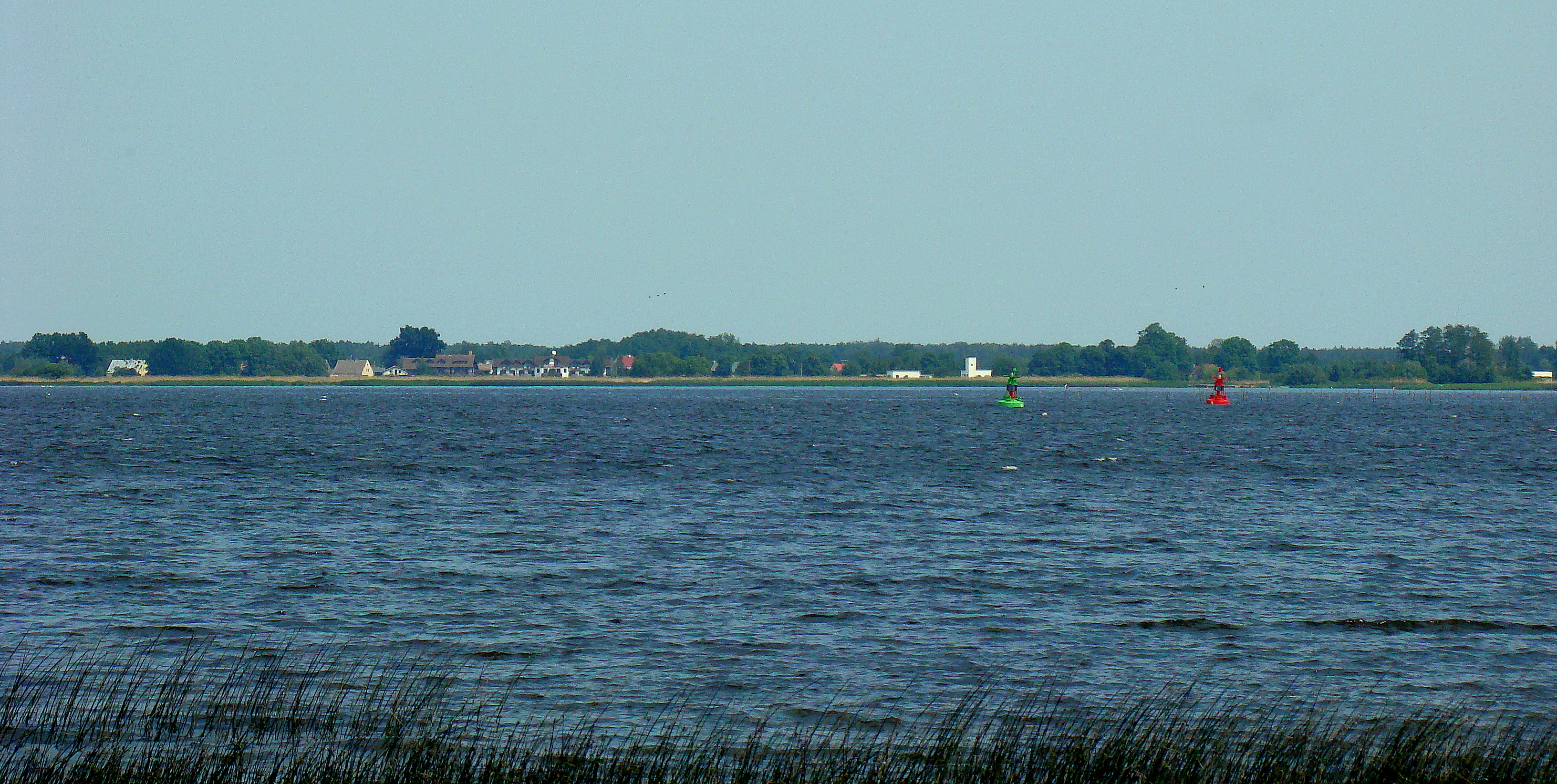 Gasierzyno on Szczecin Lagoon, West Pomeranian Voivodeship, Poland